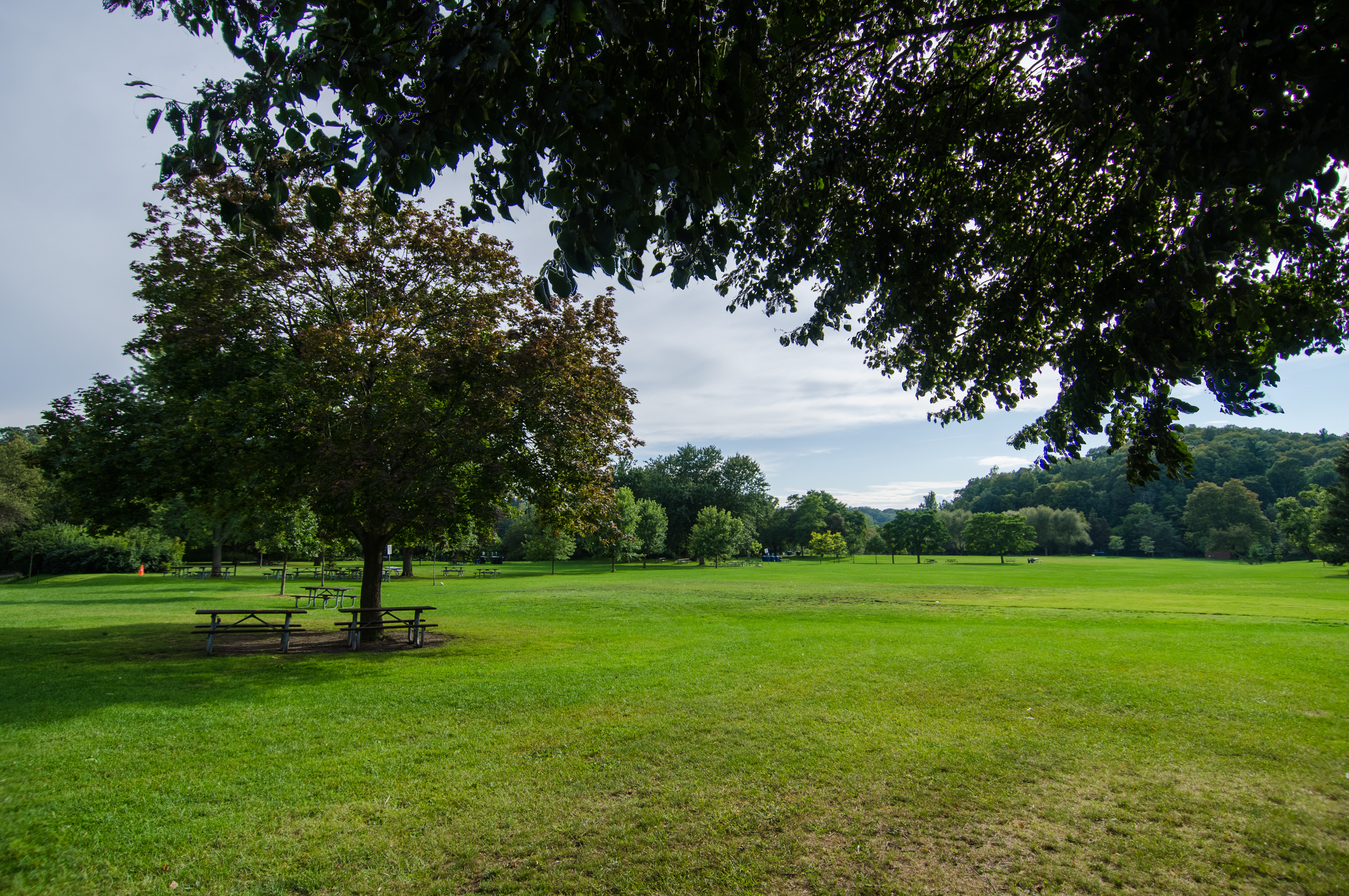 Seen in The Incredible Hulk.